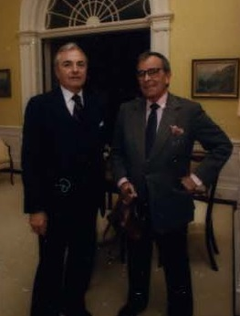 Rex Scouten, Head Curator and Ted Graber, interior designer commissioned by Nancy Reagan to redecorate the White House, are photographed on the Reagan's last day at the White House.